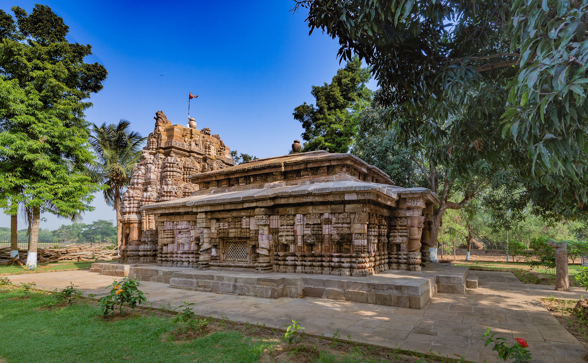 Western Side - Lateral View